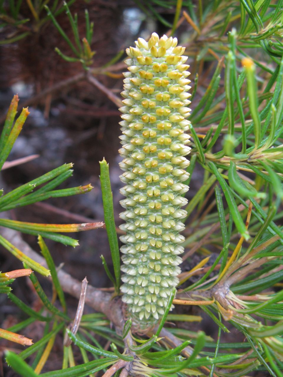 Banksia spinulosa cultivar 'Birthday candles', young inflorescence, Australian National Botanic Gardens, Canberra